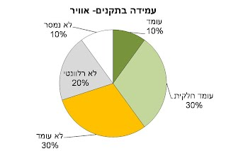 Plants compliance with air quality standards in Tefen Industrial park.